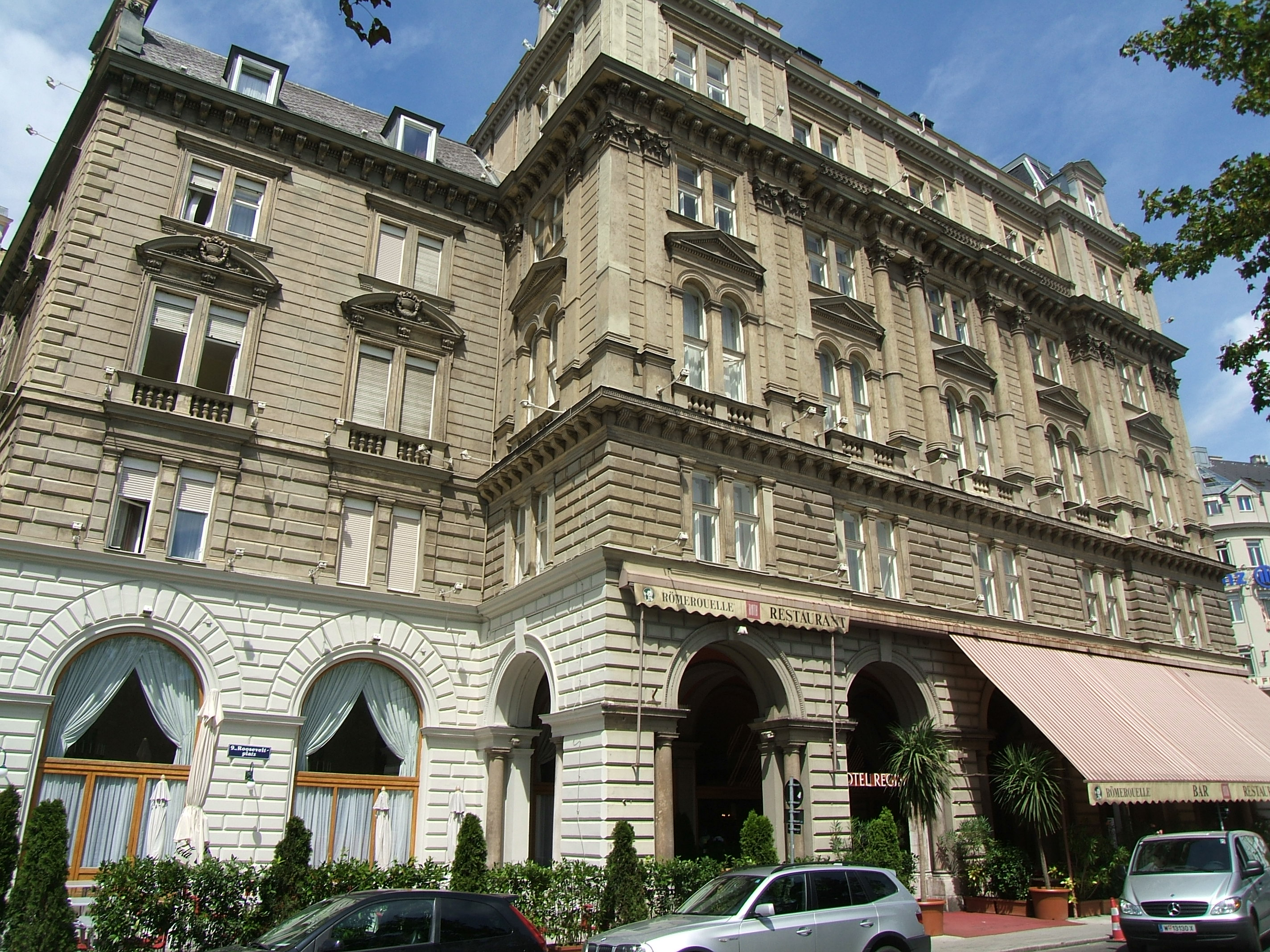 Front of Hotel Regina former Palais Angerer. Vienna 9th dist. Rooseveltplatz 15-16